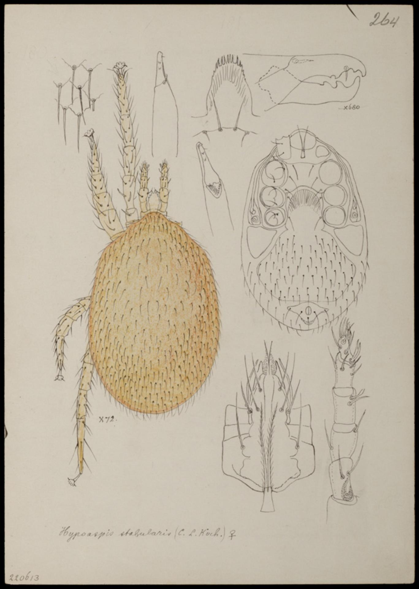 Hypoaspis stabularis (C. L. Koch)